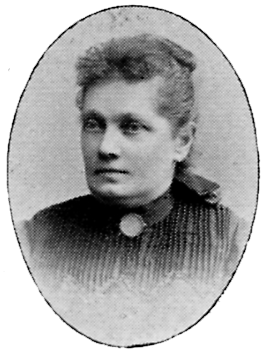 Image scanned from the book "Svenskt Porträttgalleri XX - Arkitekter, Bildhuggare, Målare m.fl. " ("Swedish Portrait Gallery XX - Architects, Sculptors, Painters, ") published 1901